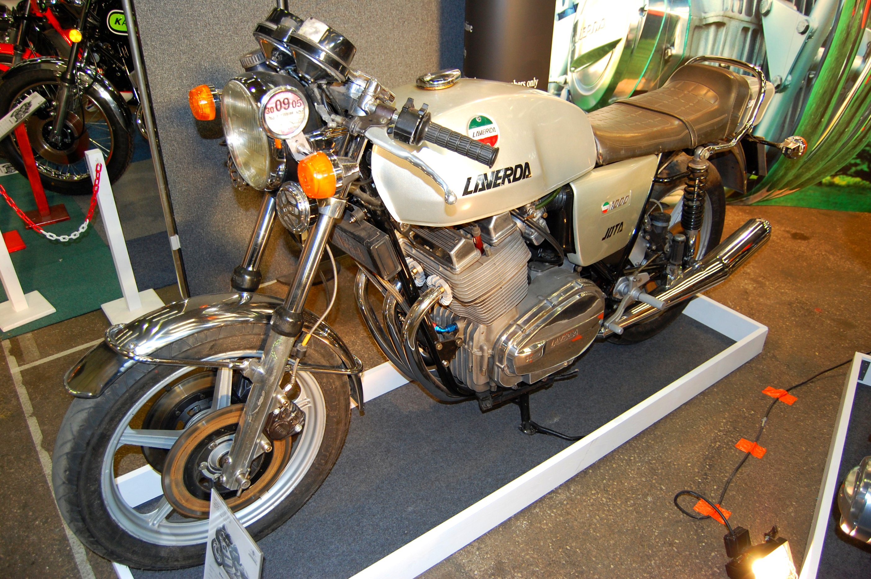 Laverda Jota is a Laverda 1000cc motorcycle modified by the importers Slater Bros. of Collington, England. The Jota made a big impression in 1976. Producing 90 hp and reaching speeds of more than 140 mph, it was the fastest production motorcycle to date.[1] The Laverda Jota model ran from 1976 through to 1982. Originally fitted with a crankshaft with 180° crankpin phasing and an alternator on the righthand side of the engine till 1982. Then from 1982 the Jota 120° was released which had the crankpin phasing to 120° and this model made a completely different sound. Also, the alternator was moved to the lefthand side of the bike. The 3 cylinder 3CL was improved by adding high lift camshafts and less restrictive exhausts. It is named after jota a Spanish dance in triple time.